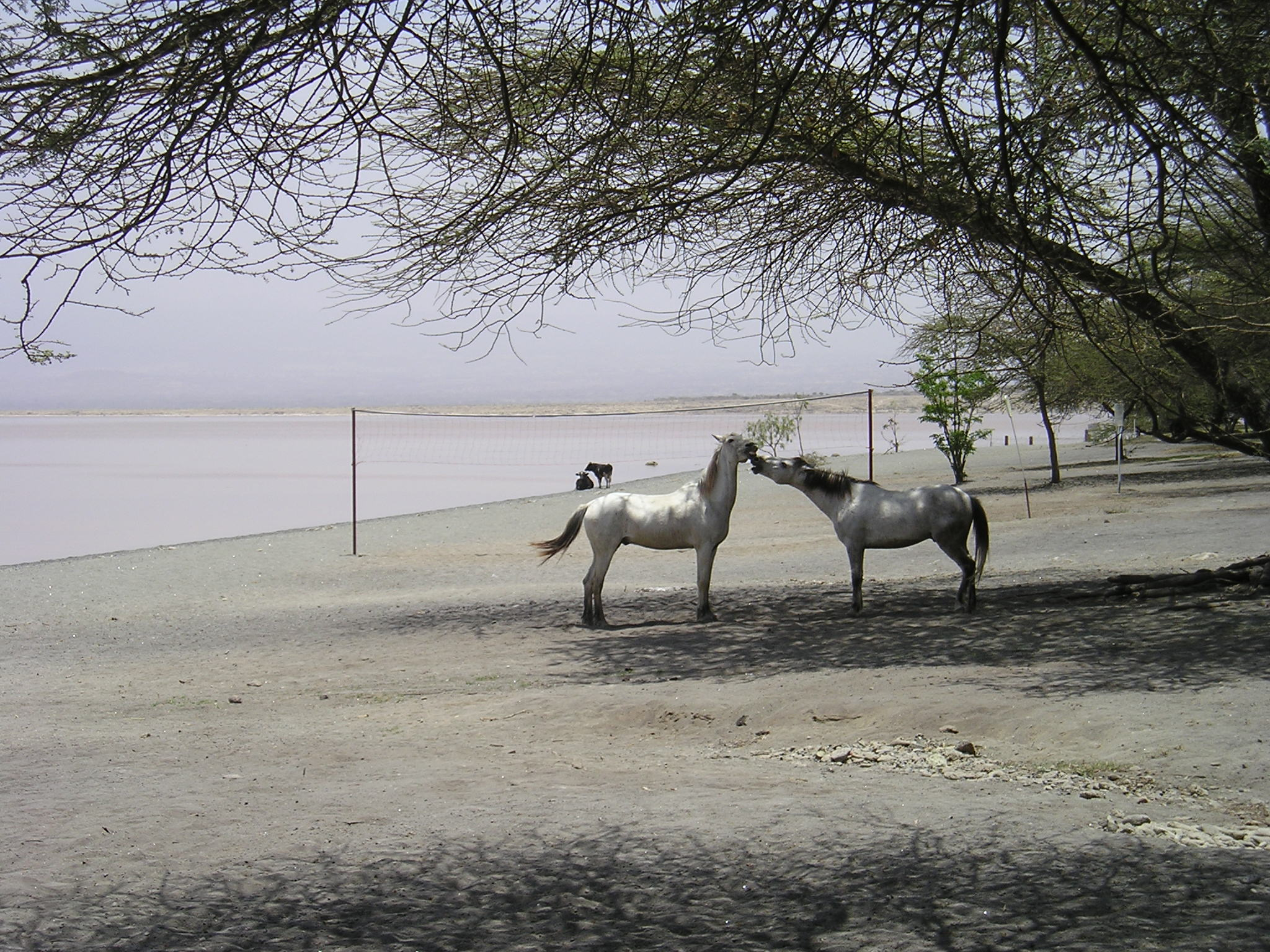 Horses at Langano Lake, Ethiopia